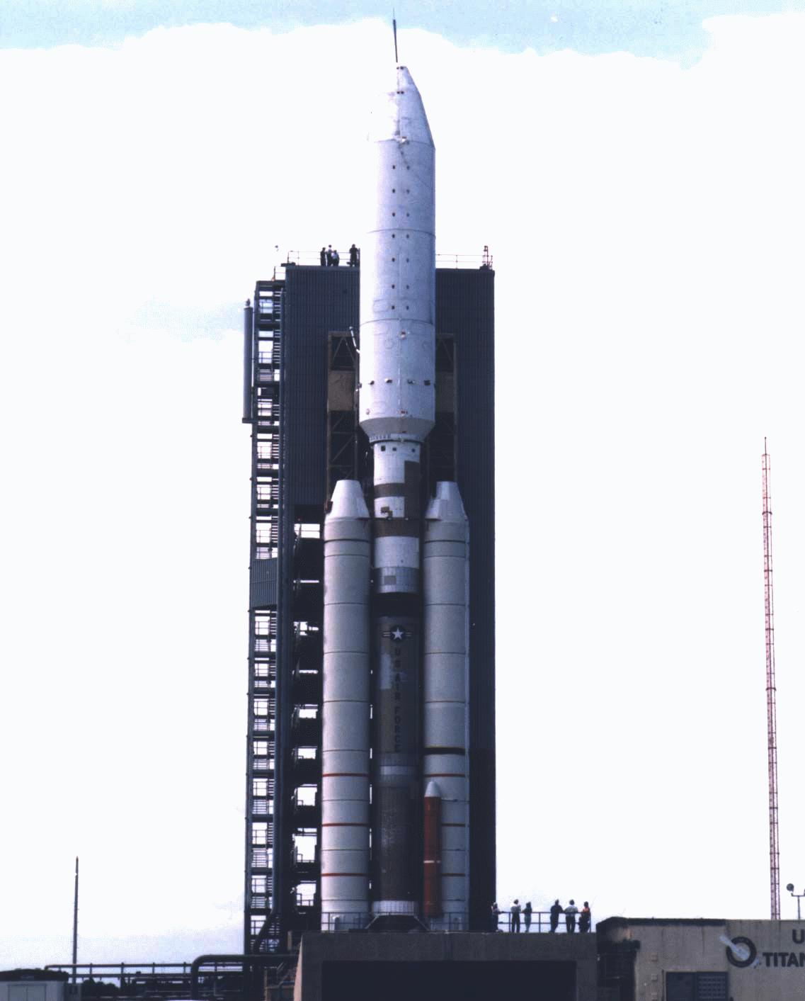 Titan-4(01)A Centaur with Trumpet or Advanced Orion ELINT-Payload